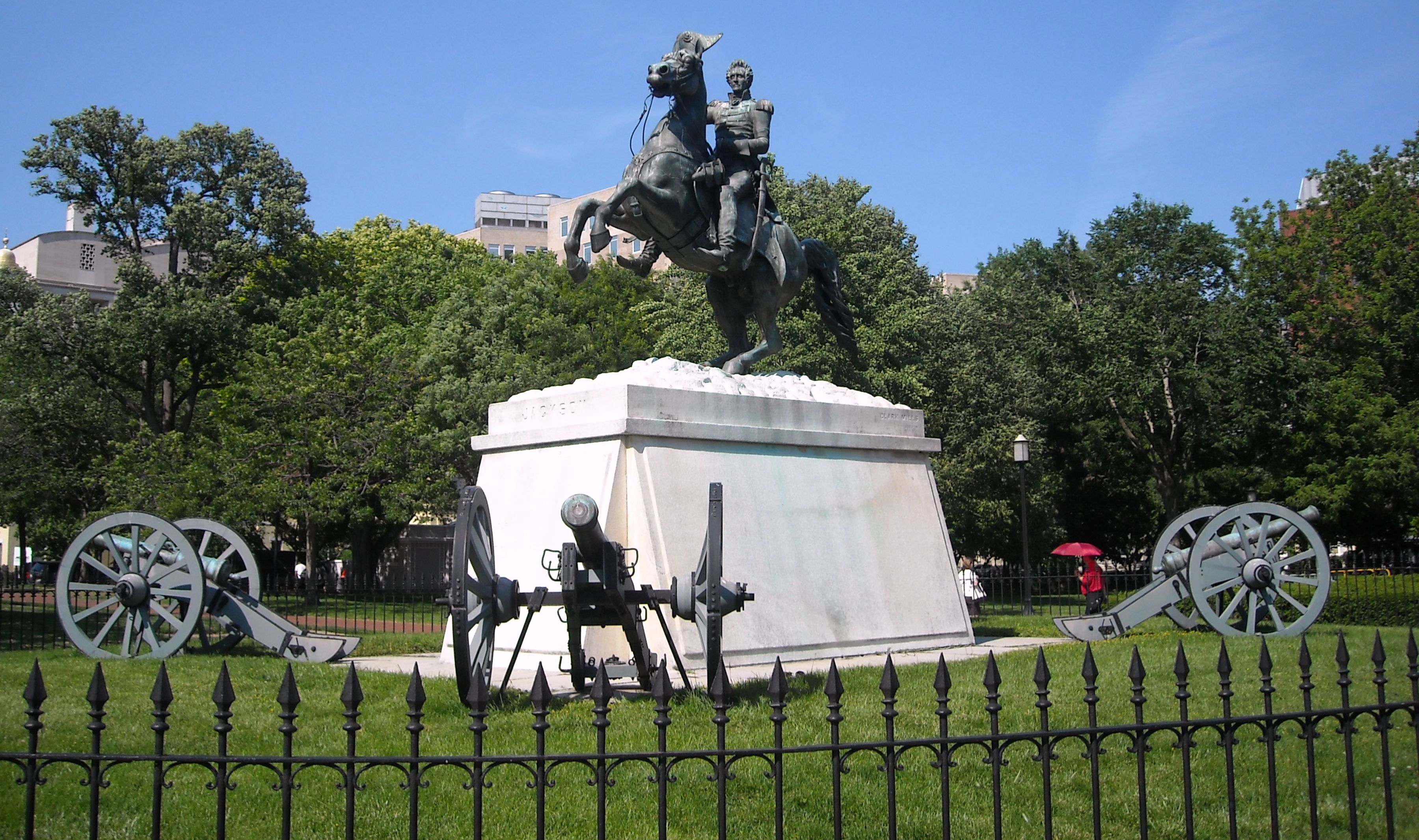 The equestrian sculpture of Andrew Jackson (1852, Clark Mills) located in Lafayette Square in Washington, D.C. The sculpture is designated as a contributing property to the Lafayette Square Historic District, which was declared a National Historic Landmark in 1970.